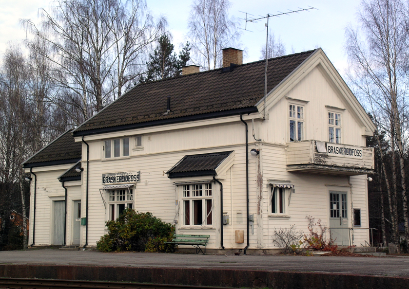 Braskereidfoss station, Solørbanen, Norway. Built 1910. Architect: Harald Kaas.